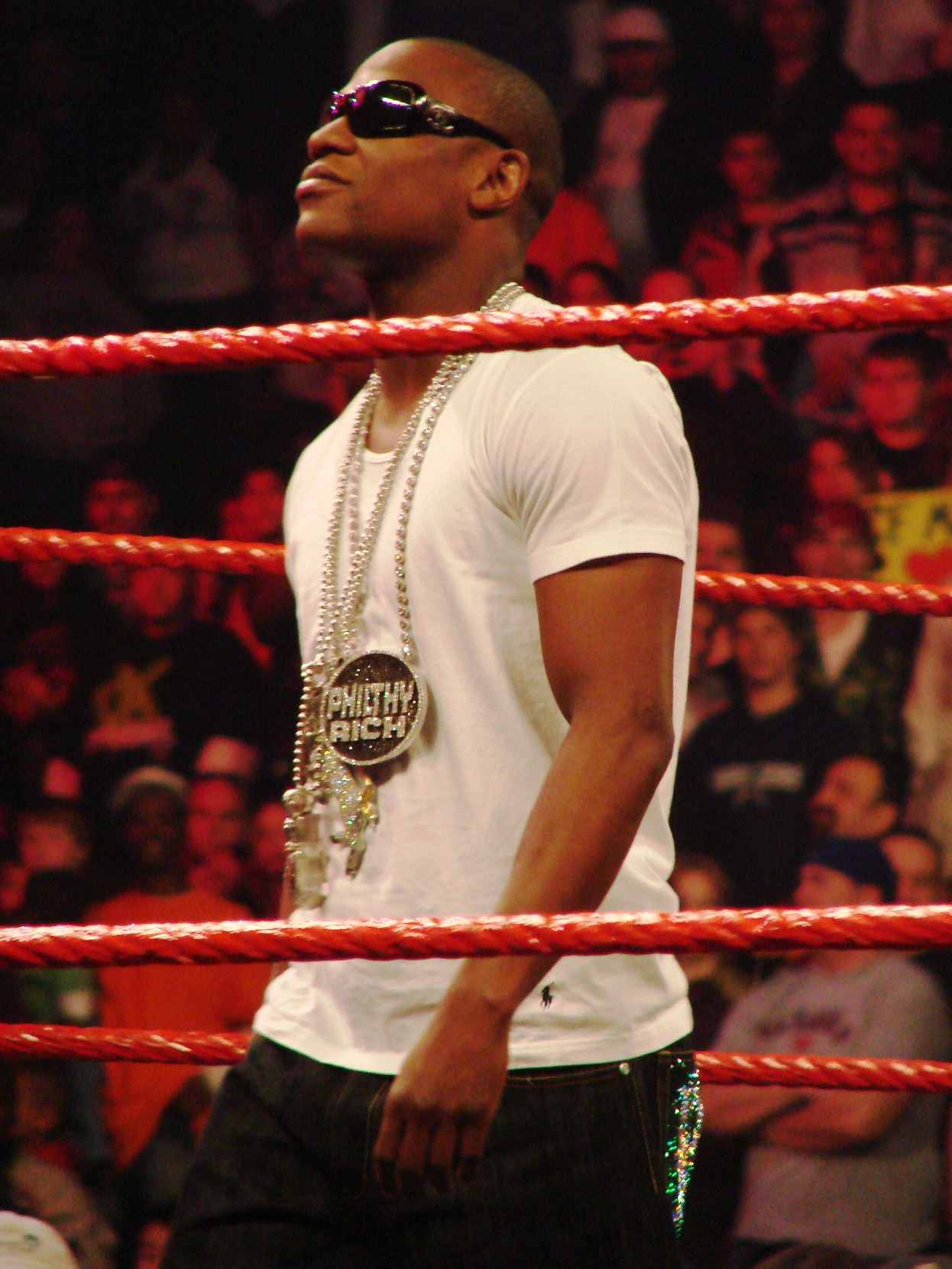 Floyd Mayweather, Jr in a WWE ring. Bradley Center, Milwaukee, WI.